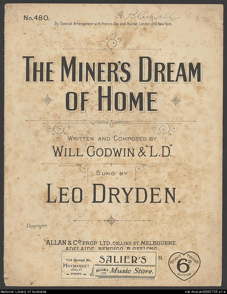 The Miner's Dream of Home a song by Will Godwin and Leo Dryden. This was first published in 1890.